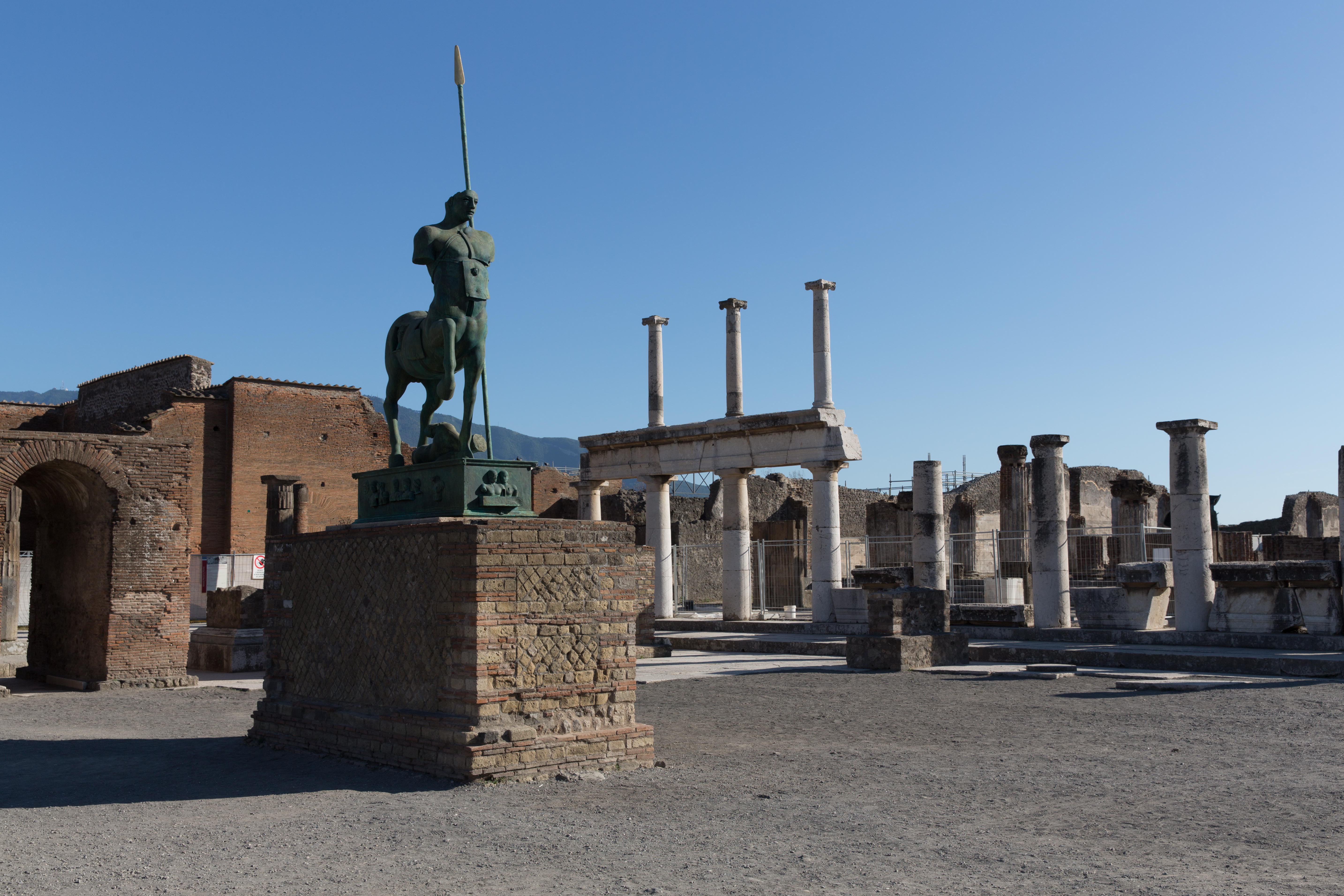 Forum in front of the Basilika in Pompeii